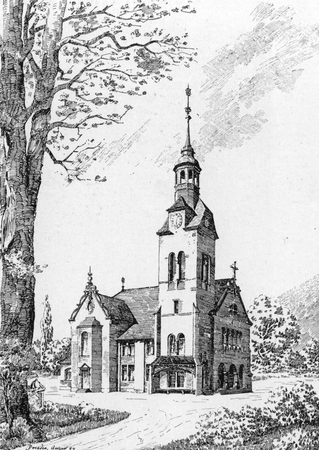 protestant village church at Stenn near Zwickau, Saxony, Germany; design by Schilling and Graebner, Architects, Dresden